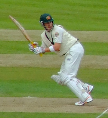 2nd Day, 3rd Test: England vs Australia, Edgbaston, 31st July 2009 Michael Clarke sees one off